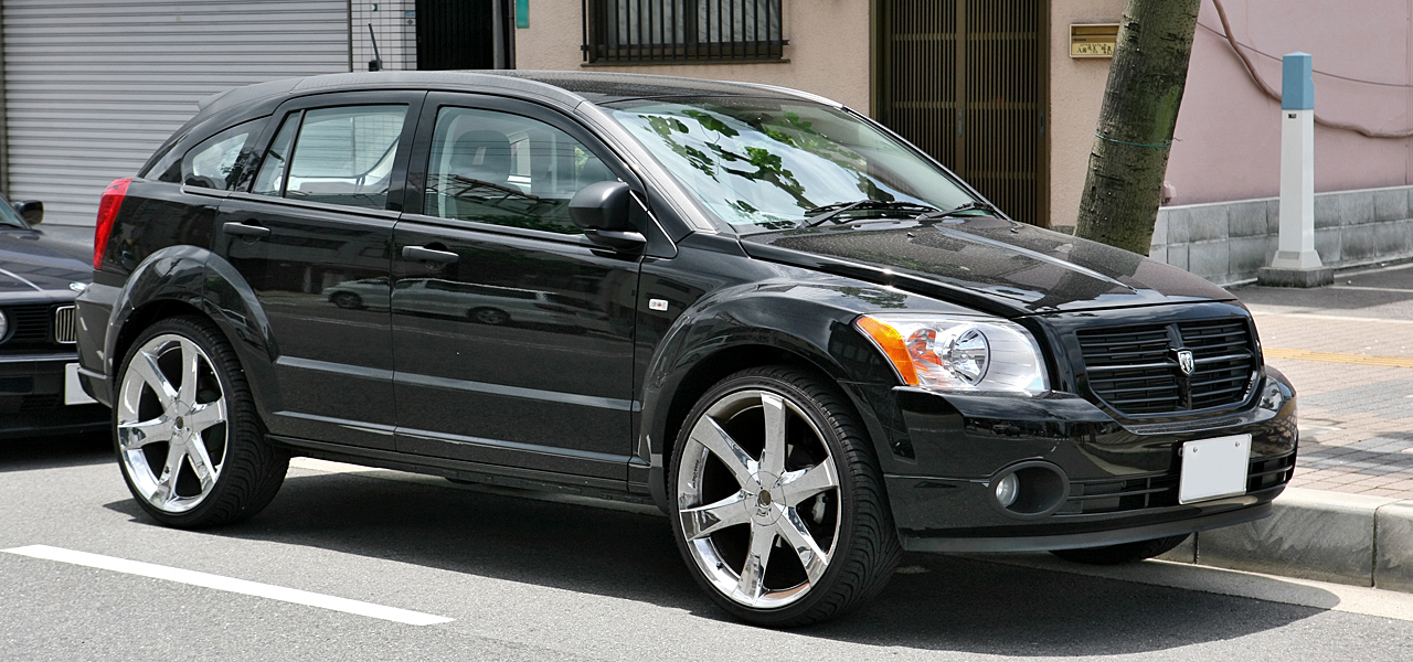 Dodge Caliber ( Japan speck RHD. Wheels and tires are non original. )